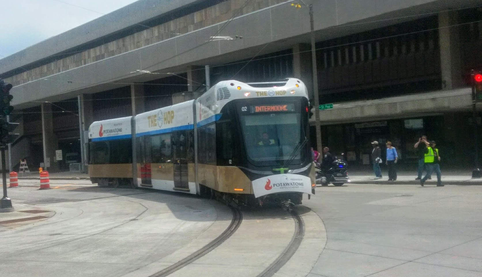 The second vehicle, car 02, of the Milwaukee Streetcar system (The Hop), making a test trip in May 2018. It is turning from St. Paul Avenue onto S. 4th Street, which is less than one block from the line's maintenance facility.